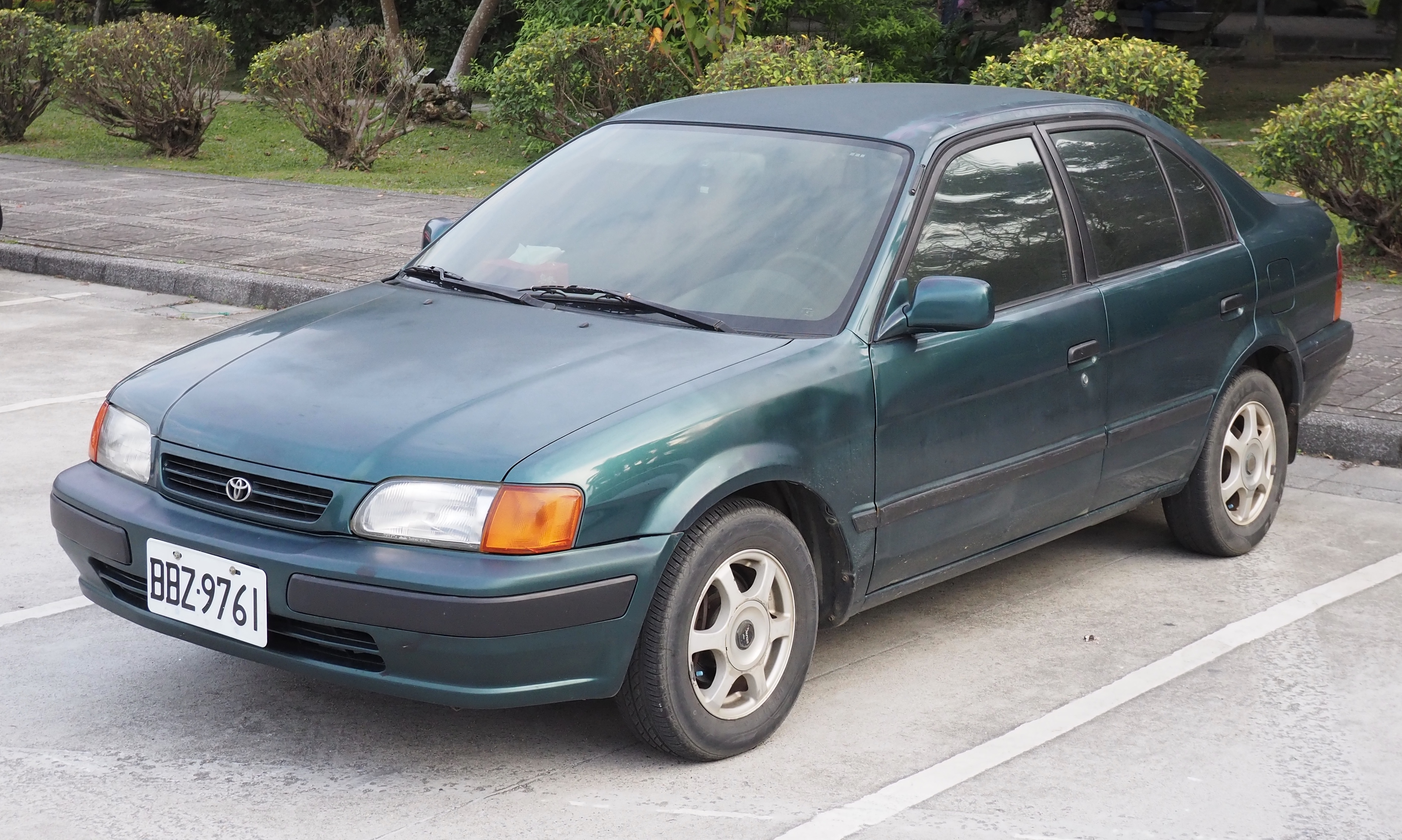 A 1995 Toyota Tercel photographed in Xinyi District, Taipei, Taiwan